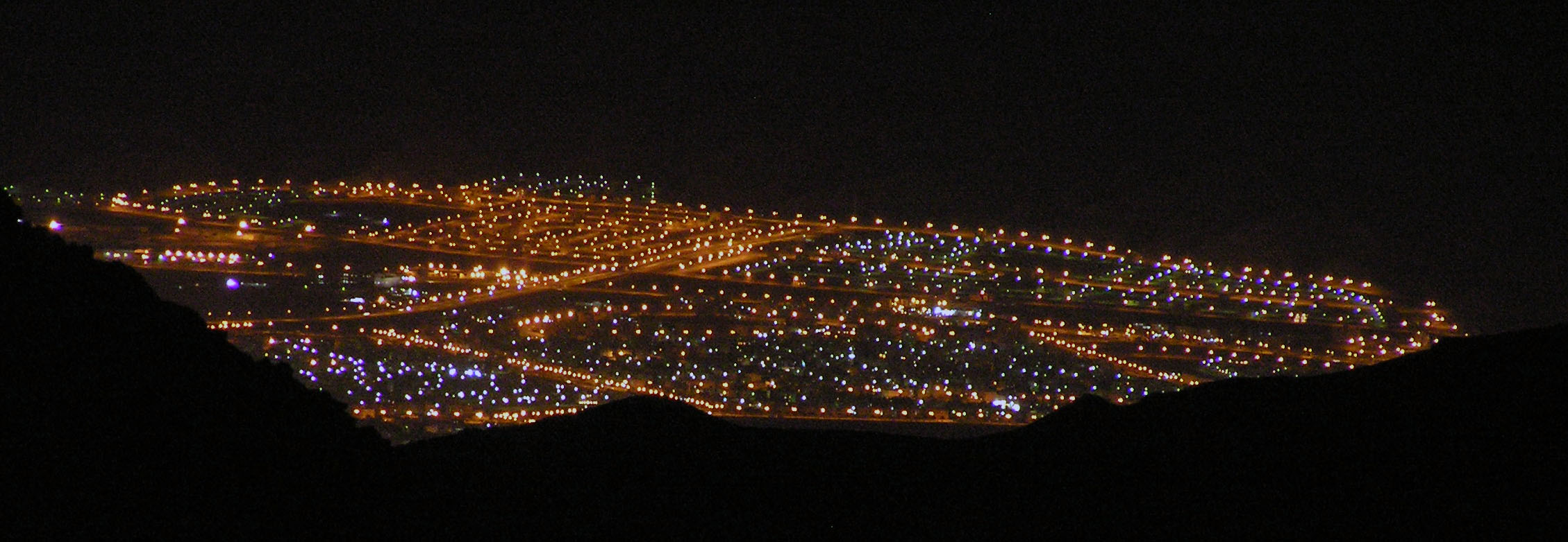 A view of Aqaba ine evening from Eilat.